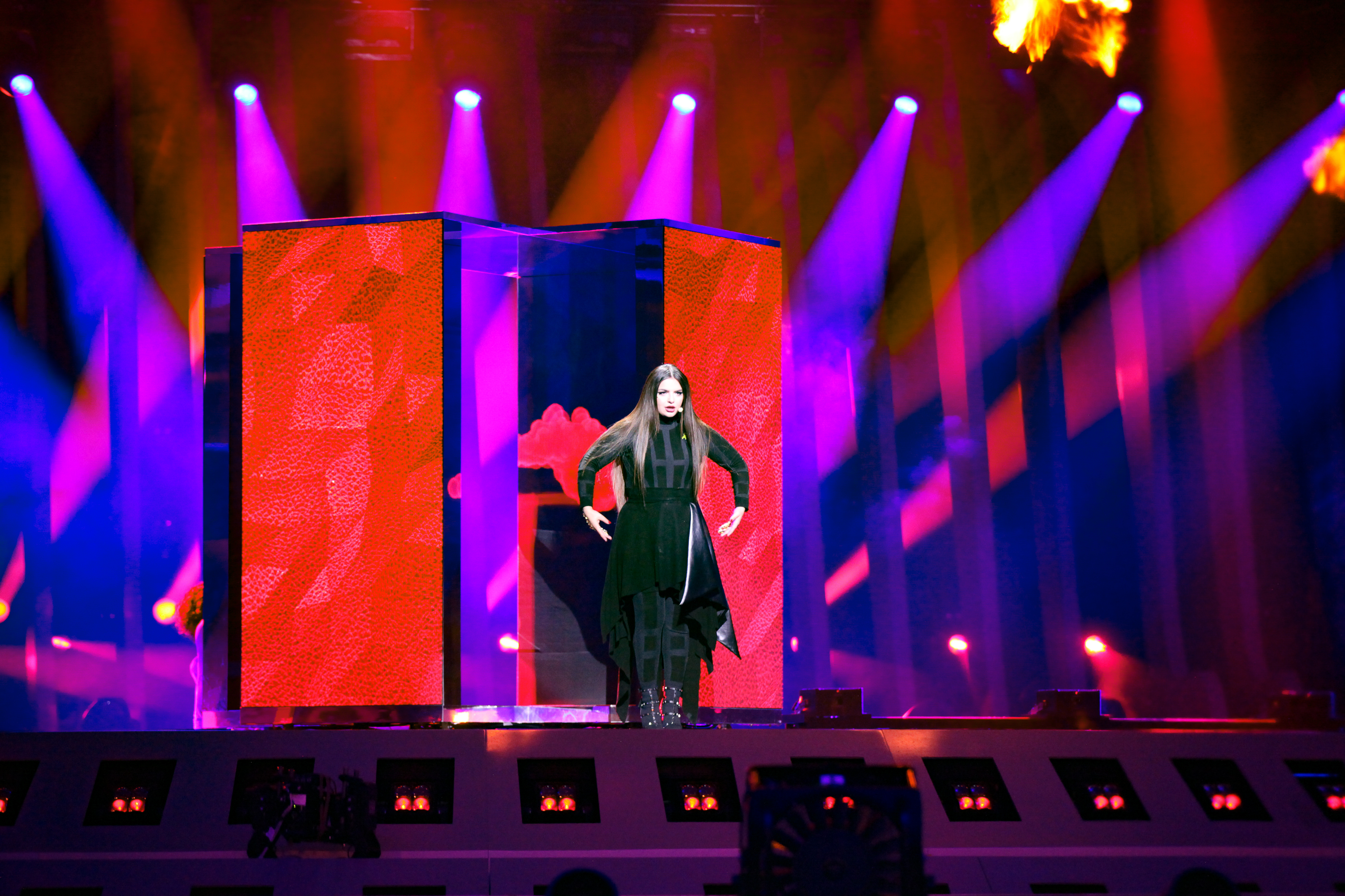 Christabelle representing Malta with the song "Taboo" during a rehearsal before the second semi final of the Eurovision Song Contest 2018 in Lisbon.